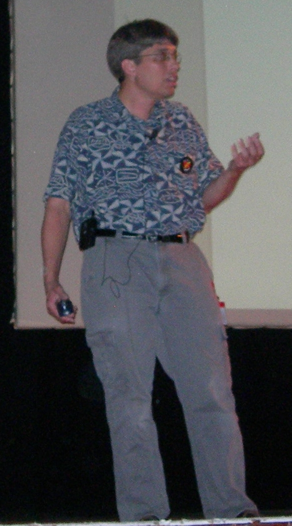 Steve Vander Ark speaking at Sectus Harry Potter conference, London, 2007; cropped version